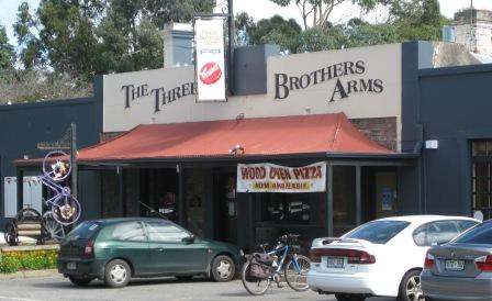 "The Three Brothers Arms", located in the main street of Macclesfield, South Australia.